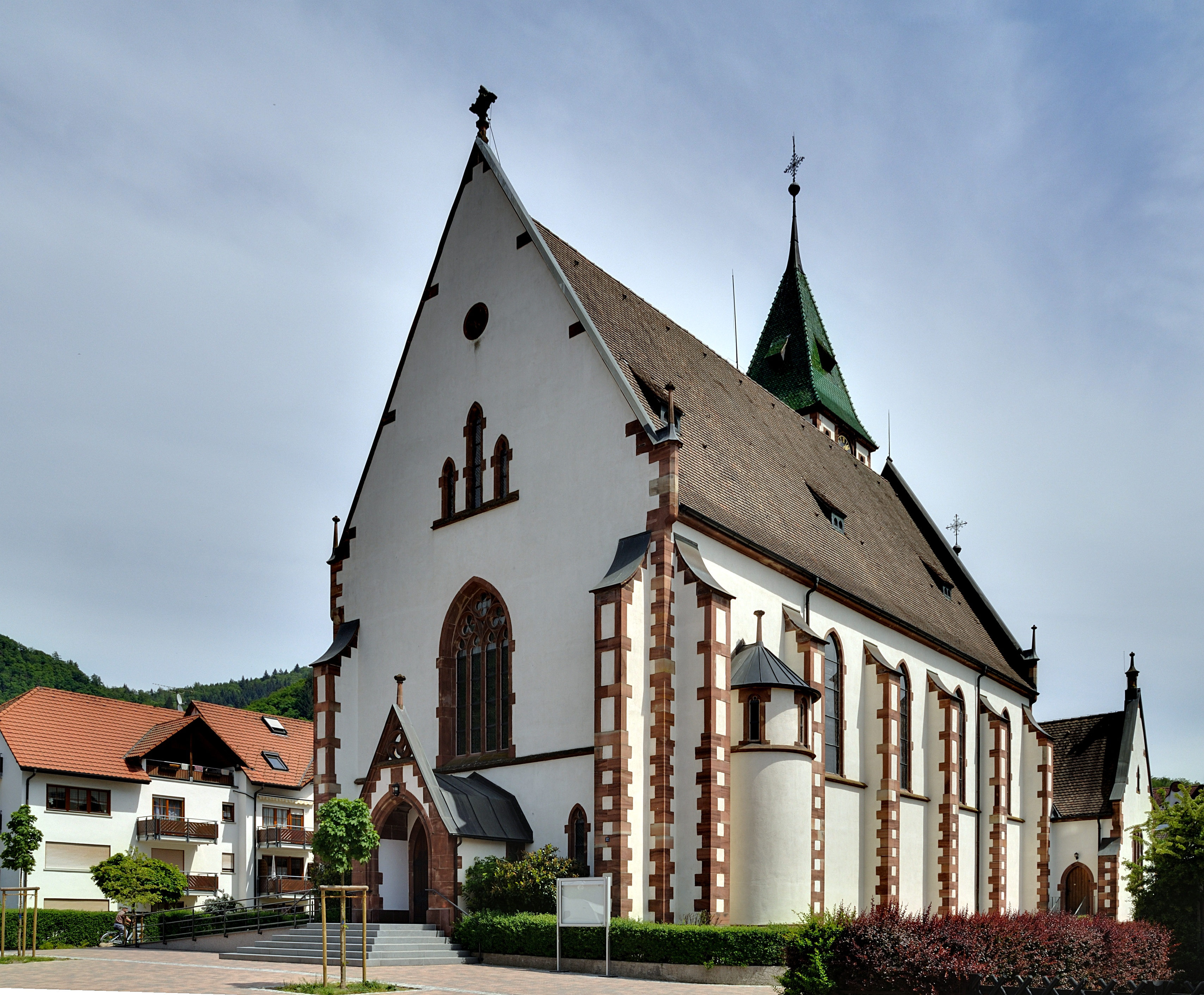 Hausen im Wiesental: catholic church as seen from west with main entrance